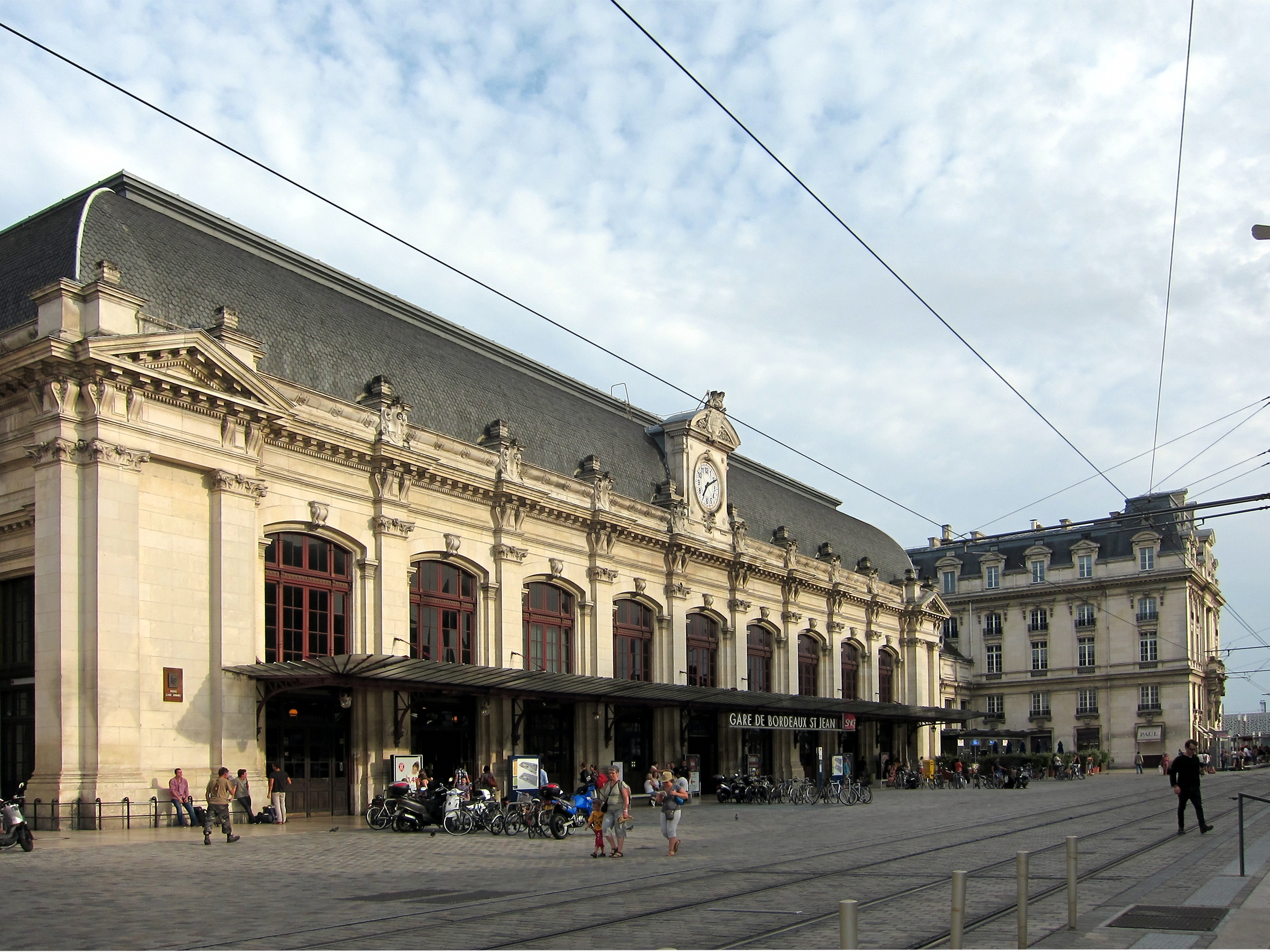 Bordeaux (France): Bordeaux-Saint-Jean train station.